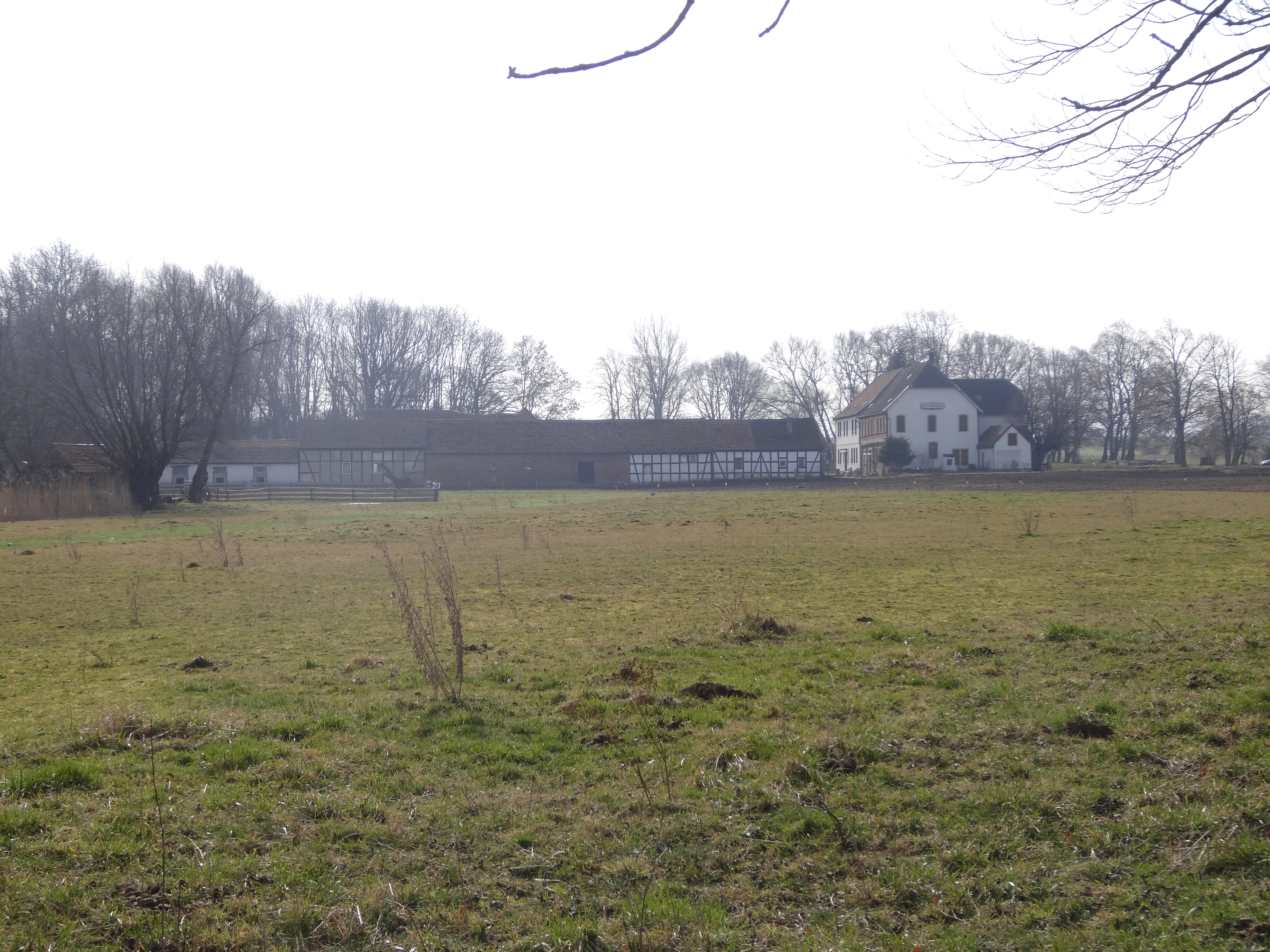 View on Weidensee (Mühlhausen), Thüringia, Germany